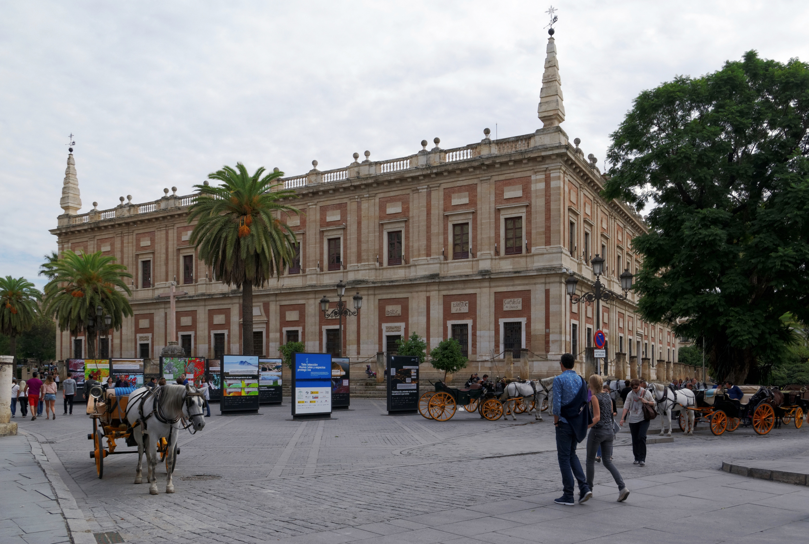 Spain, Sevilla,Archivo de Indias